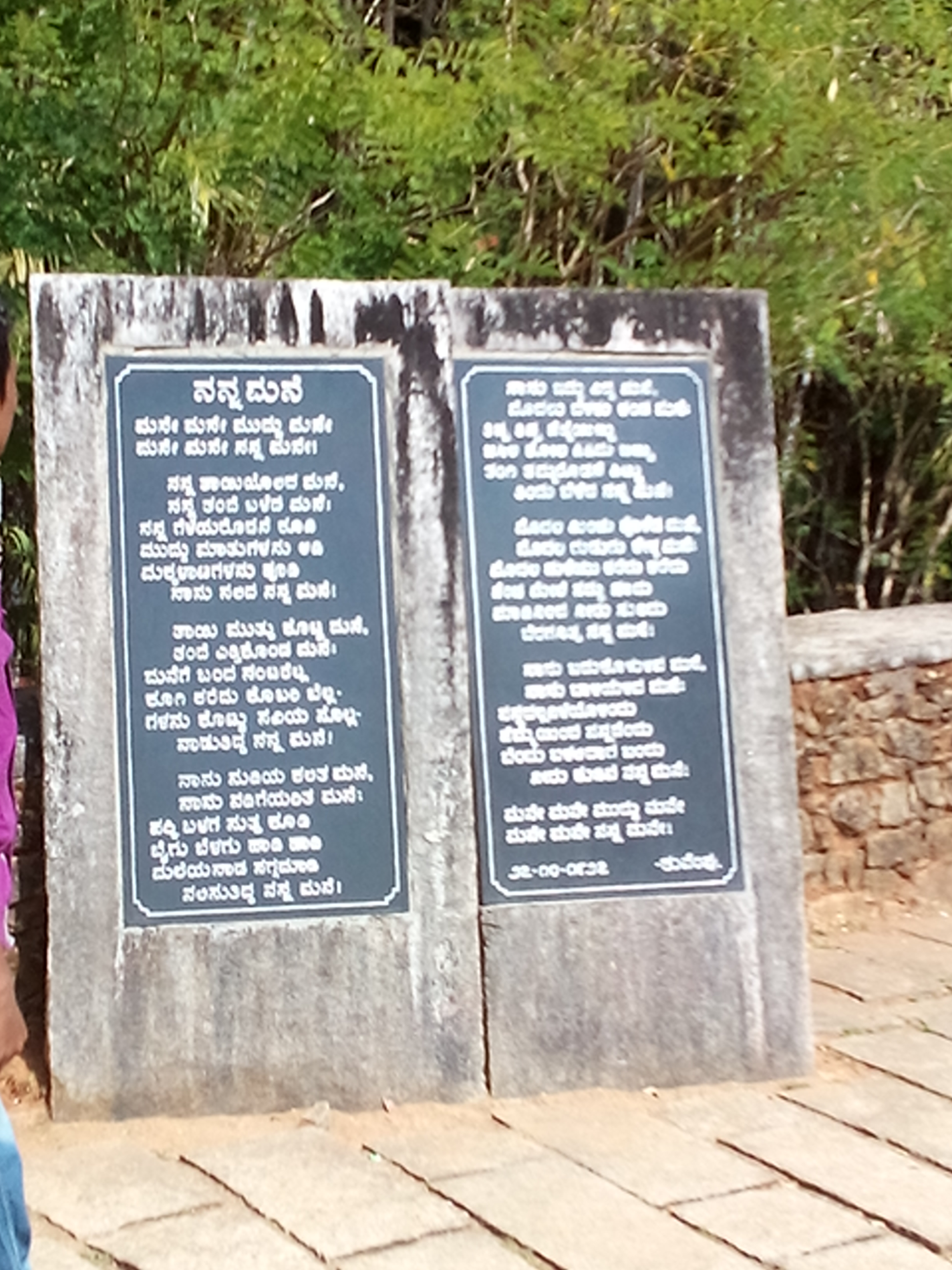 POEM OF GLOBAL MAN.